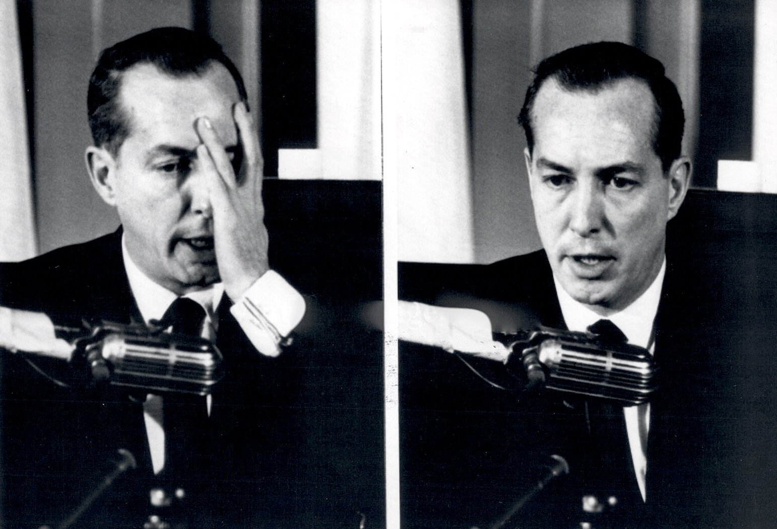 Stephen Crane at his daughter's court hearing, 1958